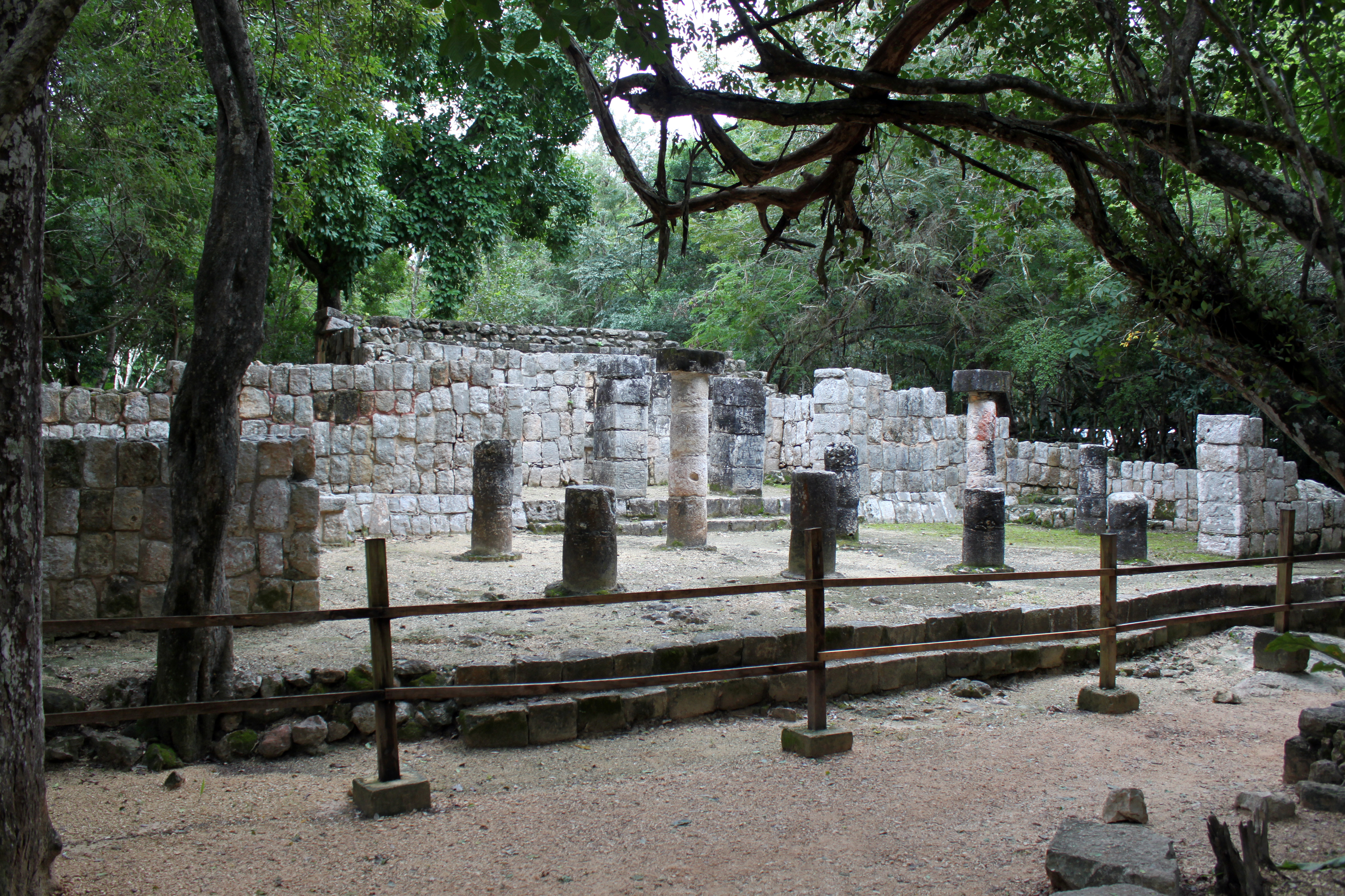 Chichén Itzá, Temple of Xtoloc